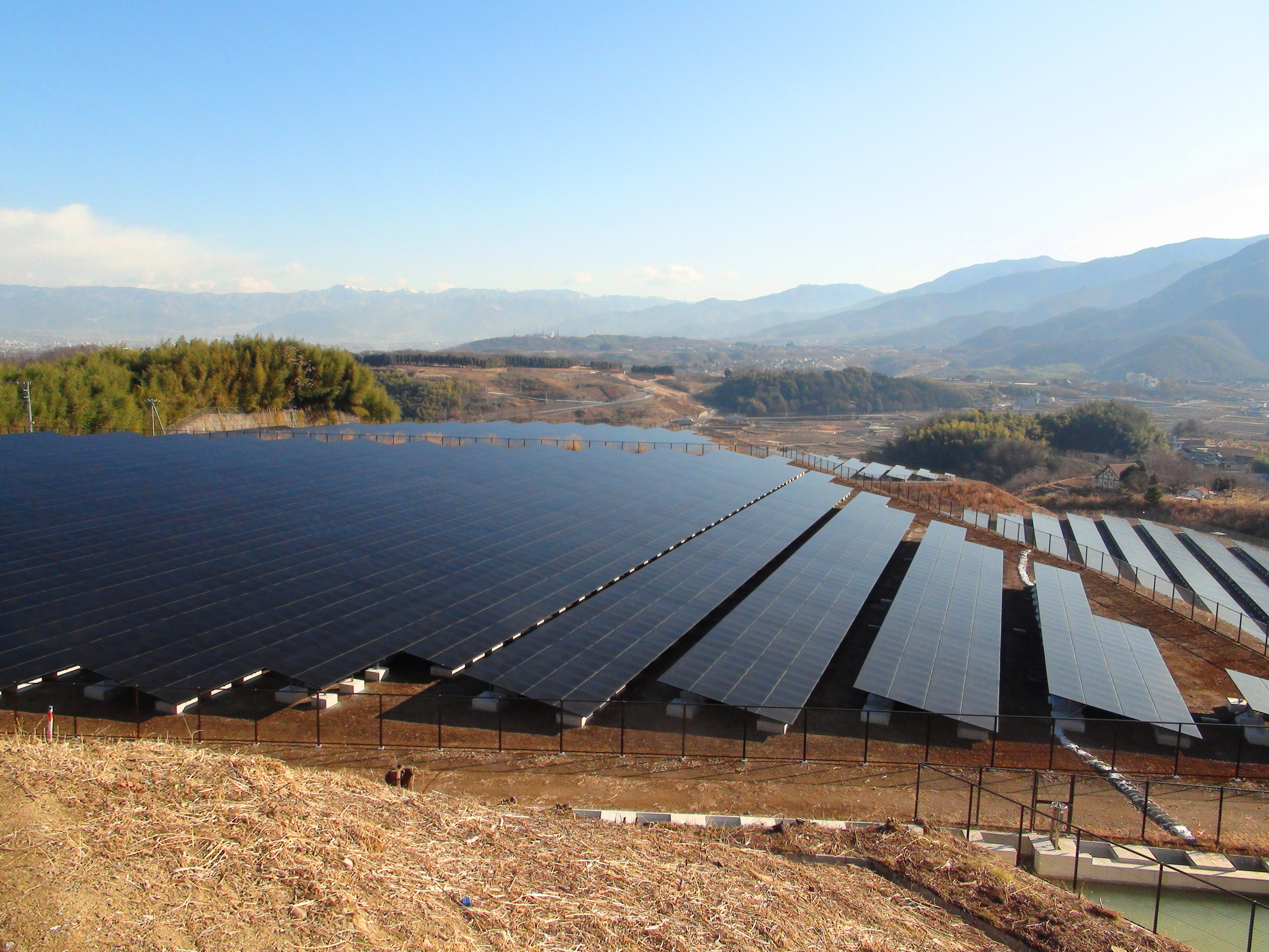 Mount Komekura Photovoltaic power plant, January 2012